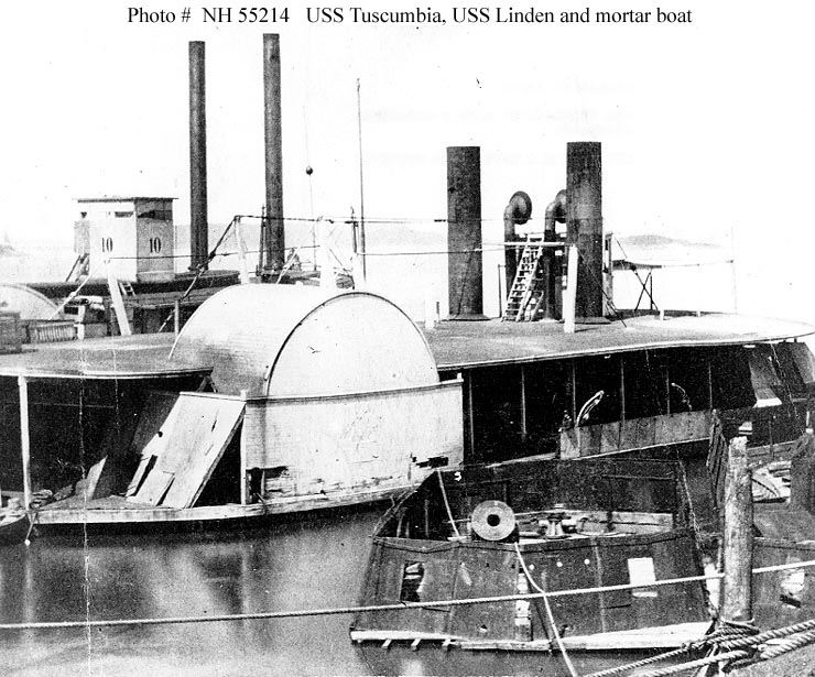 USS Tuscumbia (1863-1865) Tied up with other ships, on the Western Rivers, circa 1863. USS Linden (1863-1864, "Tinclad" # 10) is moored outboard of the Tuscumbia. Two mortar boats, one with a 13-inch mortar on board, are inboard. Note damage to the rear of Tuscumbia's starboard paddle box.